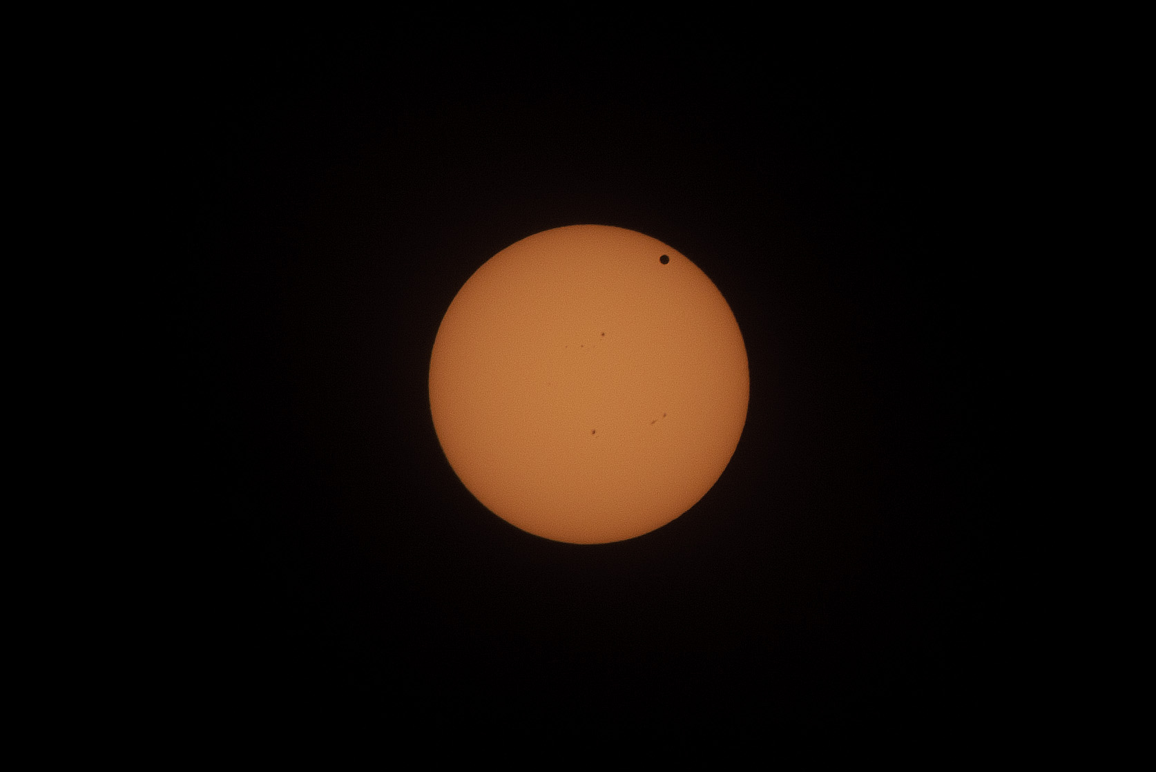 Venus Transit 2012 in Helsingborg Sweden